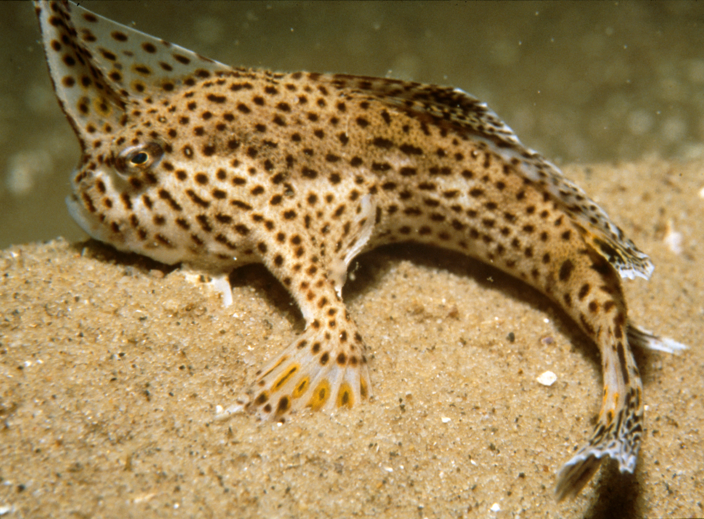 Handfish are small, bottom-dwelling fishes that would rather 'walk' on their pectoral and pelvic fins than swim. They are native to Australia and five of the eight identified handfish species are found only in Tasmania and Bass Strait. The spotted handfish is endemic to Tasmania's lower Derwent River estuary. In 1996, the spotted handfish became the first Australian marine fish to be listed as endangered. Scientists, government and the community are involved in a federally-funded recovery plan for the spotted handfish led by CSIRO Marine Research.